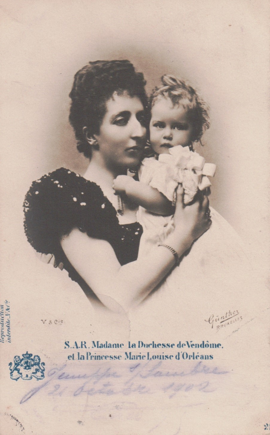 Princess Henriette of Belgium with Princess Marie Louise of Orléans (1896–1973)